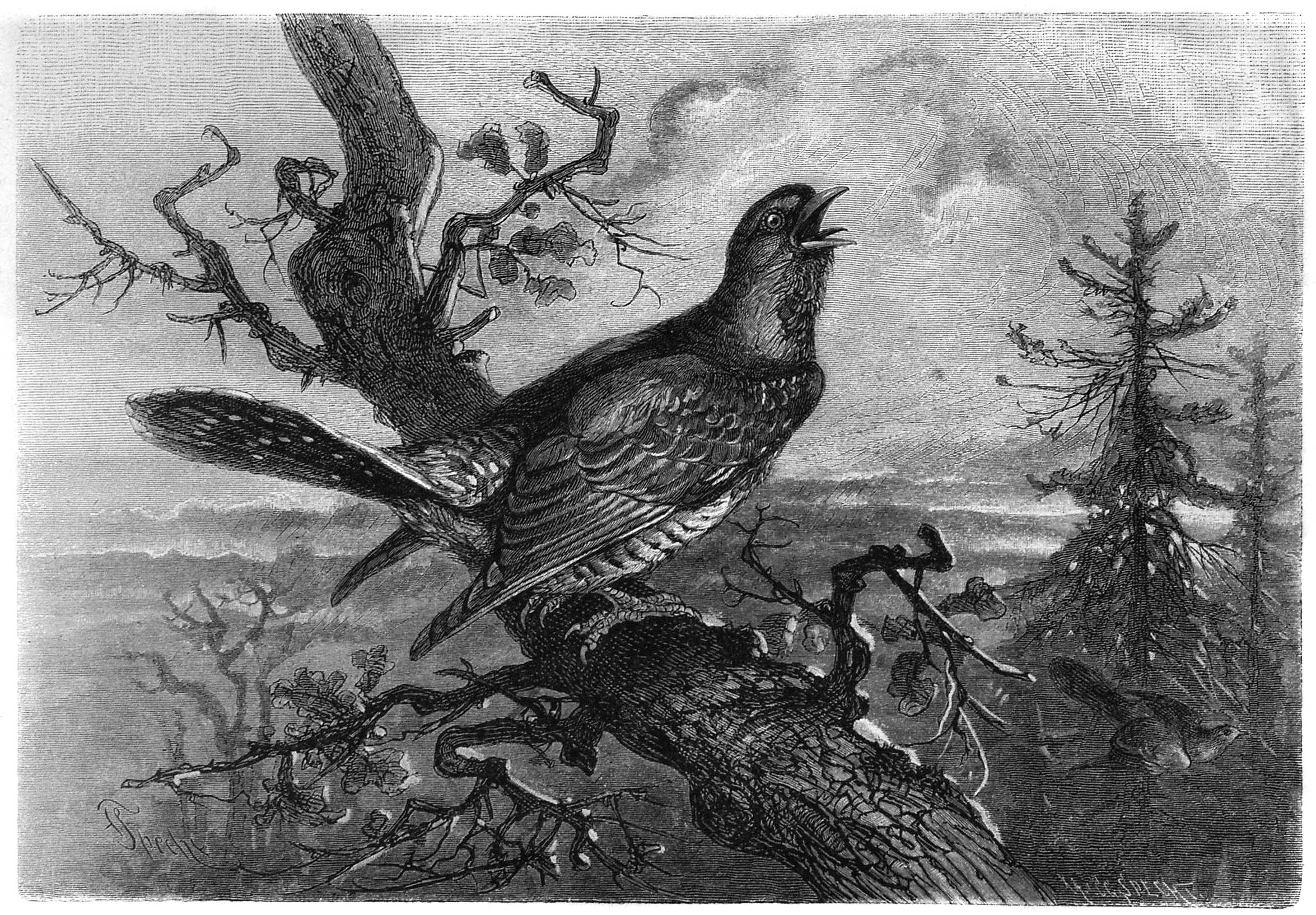 caption: "Der Kukuk. Originalzeichnung von F. Specht."